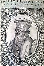 Robert Estienne, from a book frontispiece.